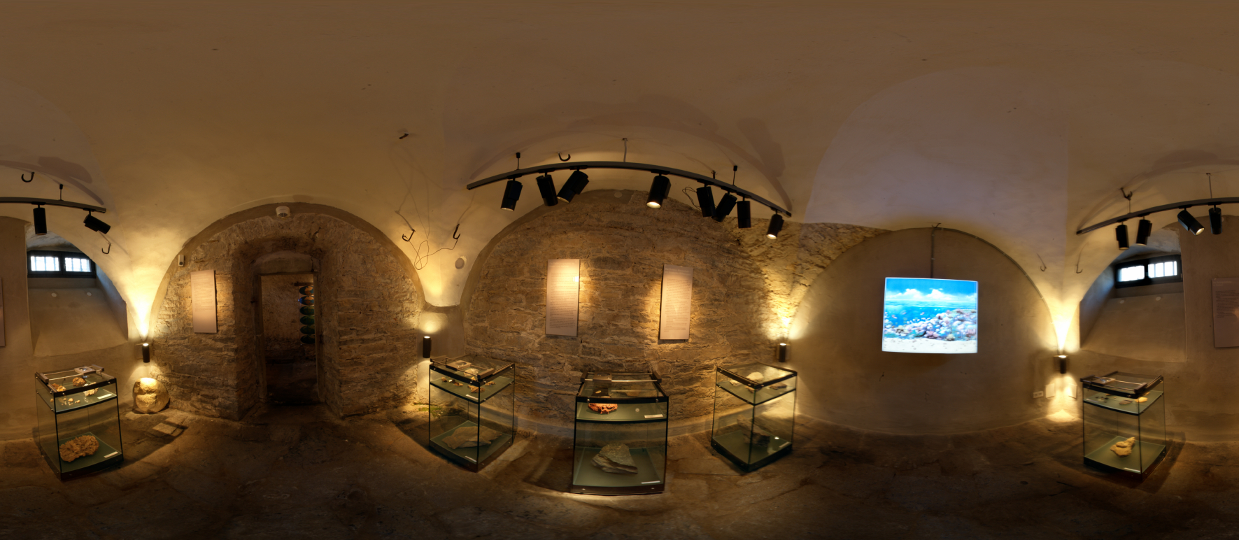 Ausstellungen im Museum Haus Hövener Museum Haus Hövener Native nameMuseum Haus Hövener LocationBrilon , GermanyCoordinates51° 23′ 44.16″ N, 8° 34′ 05.52″ E Established1983 Web page Authority control : Q1667289 VIAF: 201846718 GND: 7762529-8 institution QS:P195,Q1667289